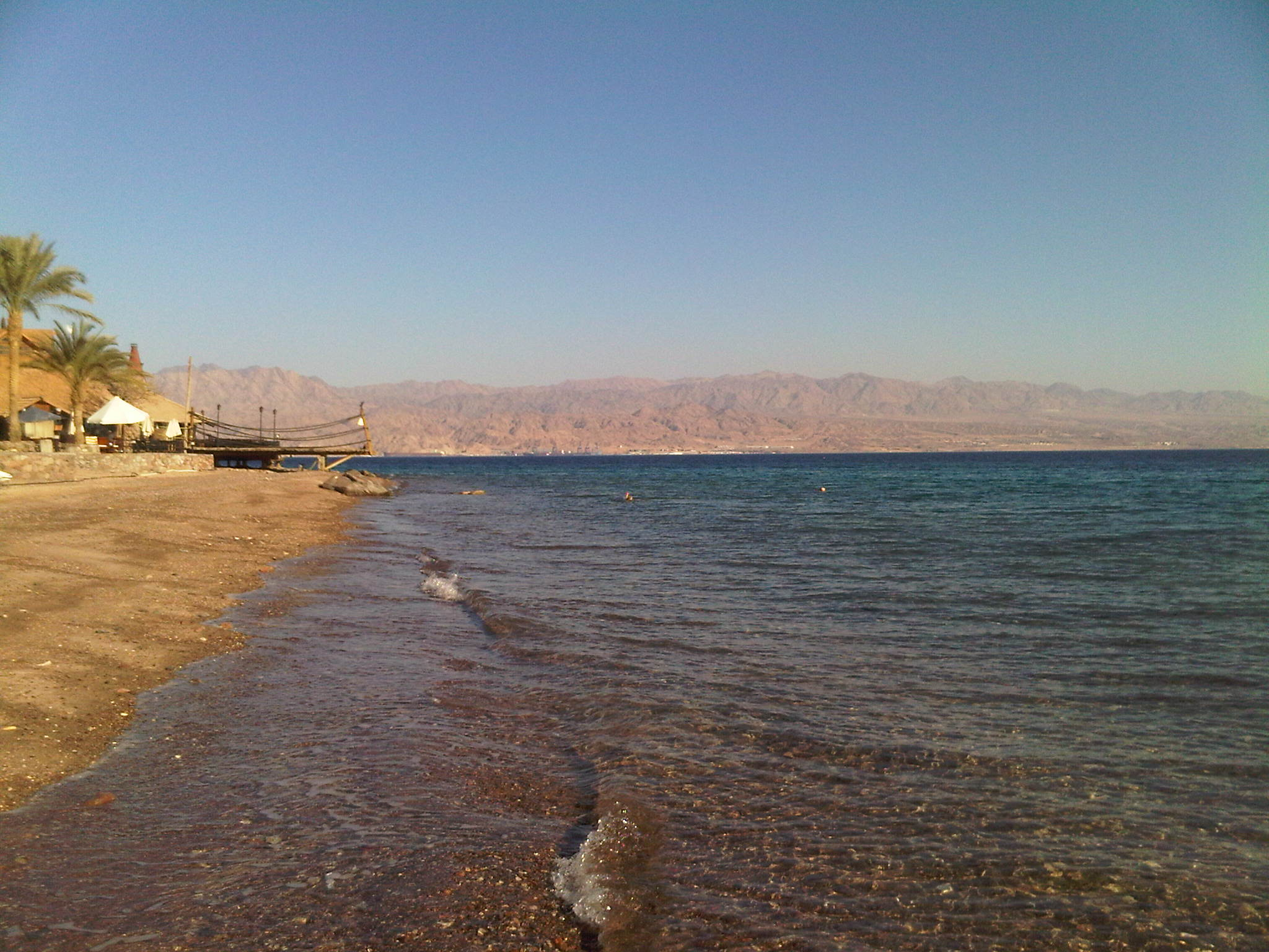 Red Sea stony beach in Taba, Egypt (viev of the Gulf of Aqaba waters).